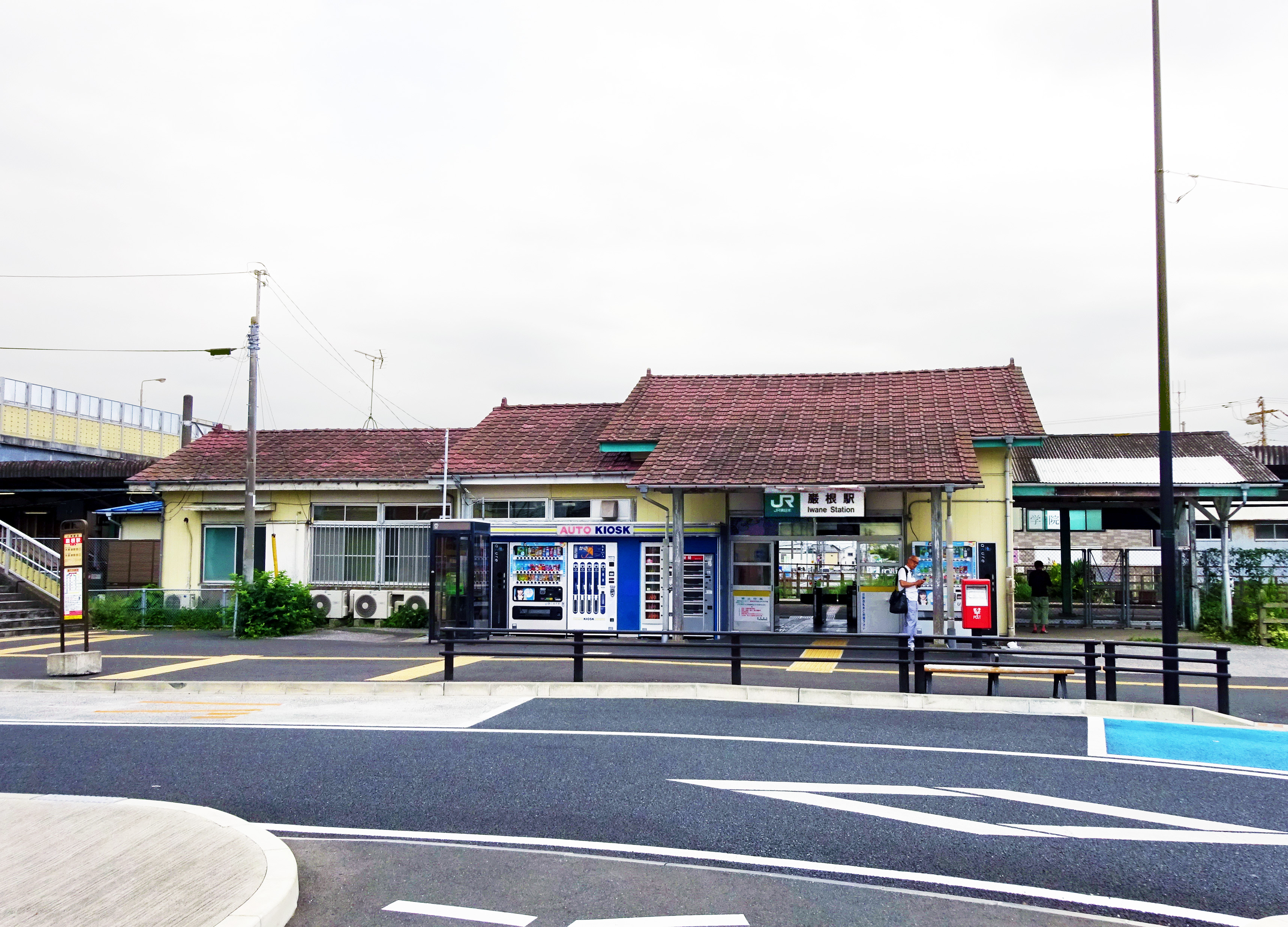 Iwane Station